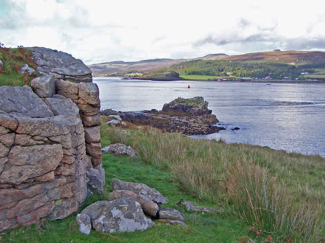 Narrows of Raasay Seen from An Aird, the rocky outcrop in the centre of the picture is popular with Shags. The Isle of Raasay is in the background.